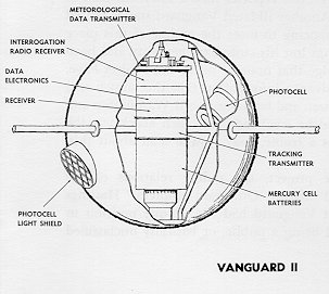 Sketch of Vanguard 2 satellite family.